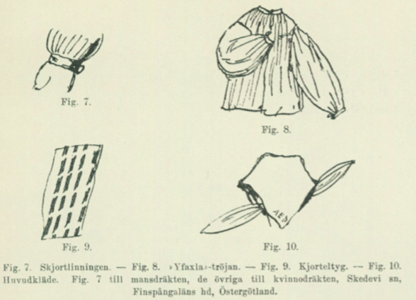 Ritning över detaljer till Skedevidräkten.